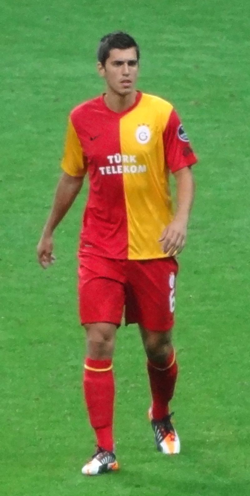 ceyhun gulselam vs eskişehirspor his first league match at g.s. 26.09